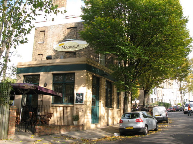 The Magdala Tavern. See 1057172.